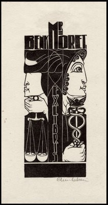 Ex Libris of Benk Moret, designed by Chris Moret